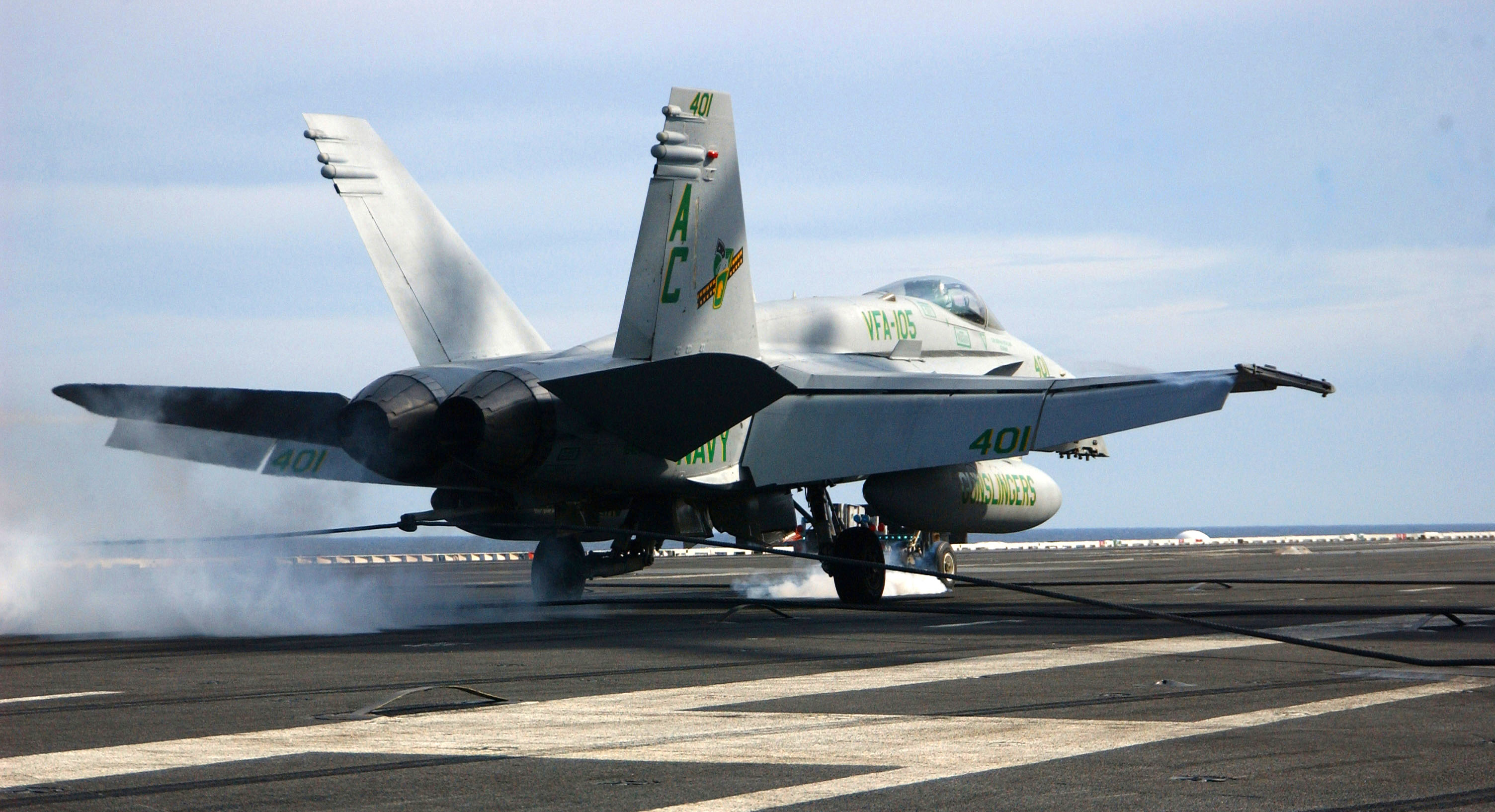 Atlantic Ocean (July 14, 2005) - An F/A-18C Hornet assigned to the “Gunslingers” of Strike Fighter Squadron One Zero Five (VFA-105) smokes its tires after conducting an arresting landing aboard the Nimitz-class aircraft carrier USS Harry S. Truman (CVN 75). Truman is currently conducting carrier qualifications, sustainment operations and participating in a Joint Task Force Exercise (JTFEX) with USS Theodore Roosevelt (CVN 71). JTFEX is a key component in the training cycle of an aircraft carrier and carrier air wing in the U.S. Navy Fleet Response Plan construct. U.S. Navy photo by Photographer's Mate 3rd Class Kristopher Wilson (RELEASED)